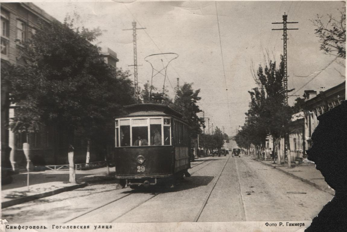 Tram (no. 29) on Gogol street in Simferopol, ca. 1930s